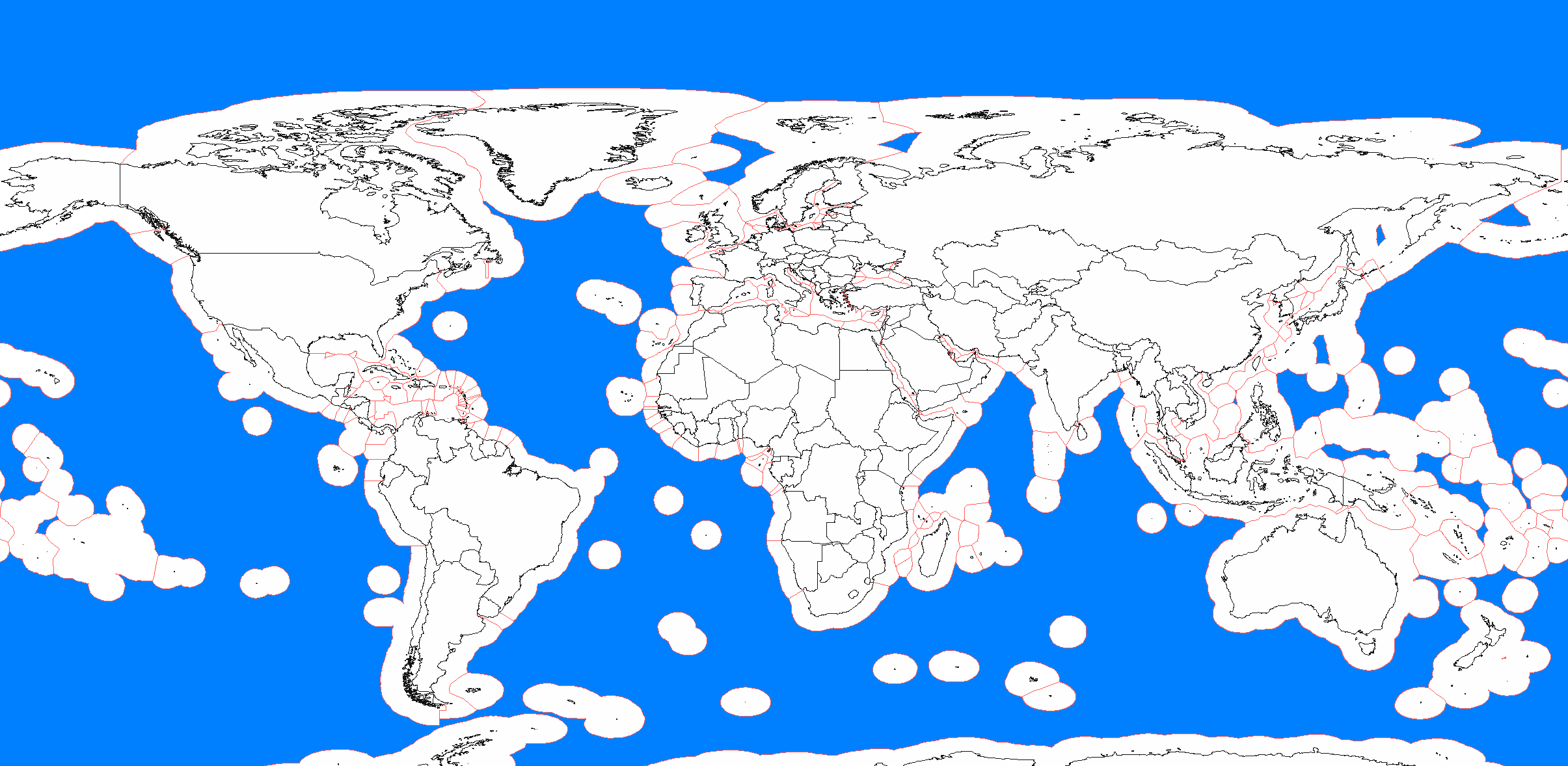 Areas outside of exclusive economic zones in bright blue. Created by Kvasir